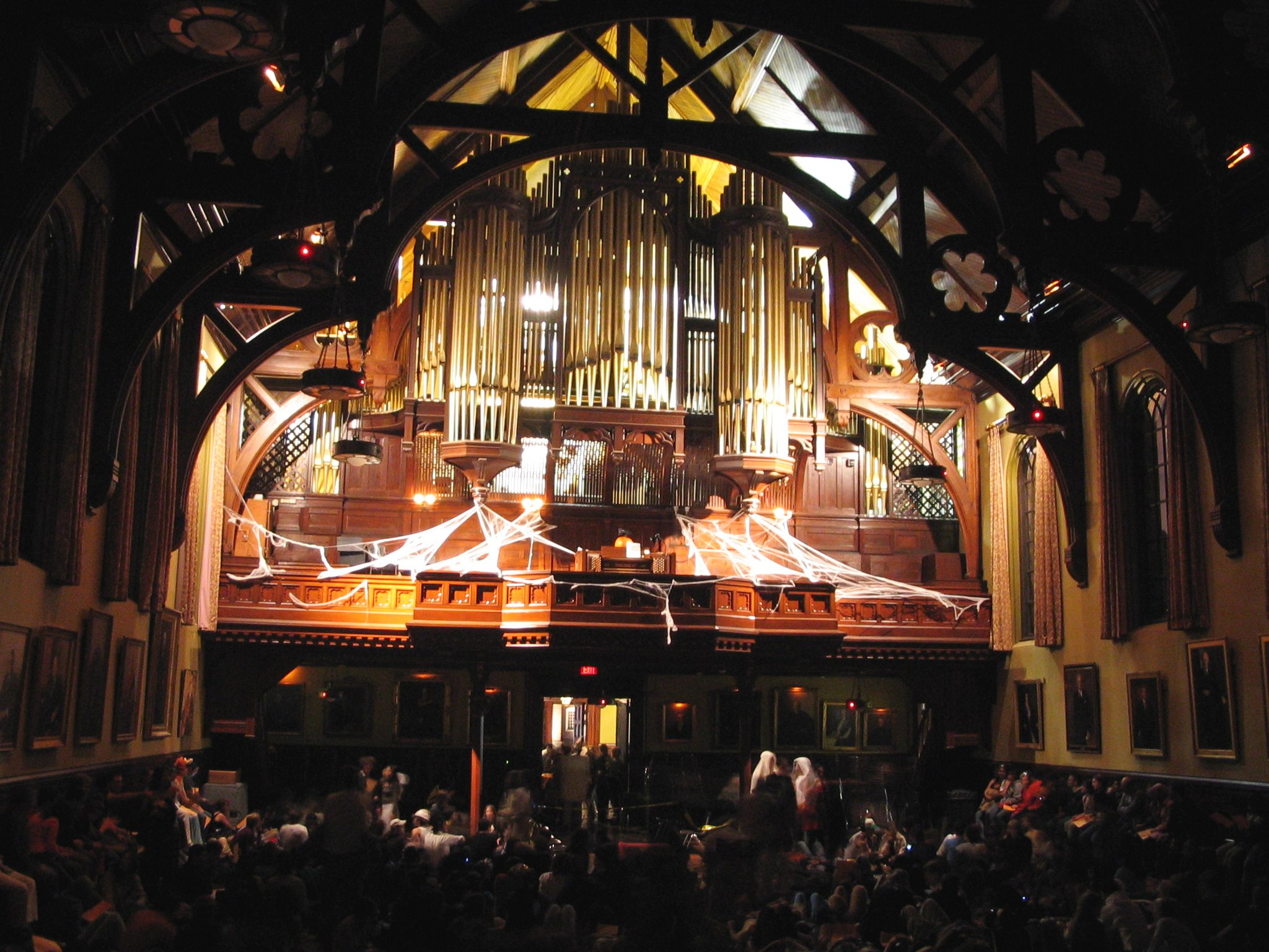 Brown University - Halloween Midnight Organ Recital